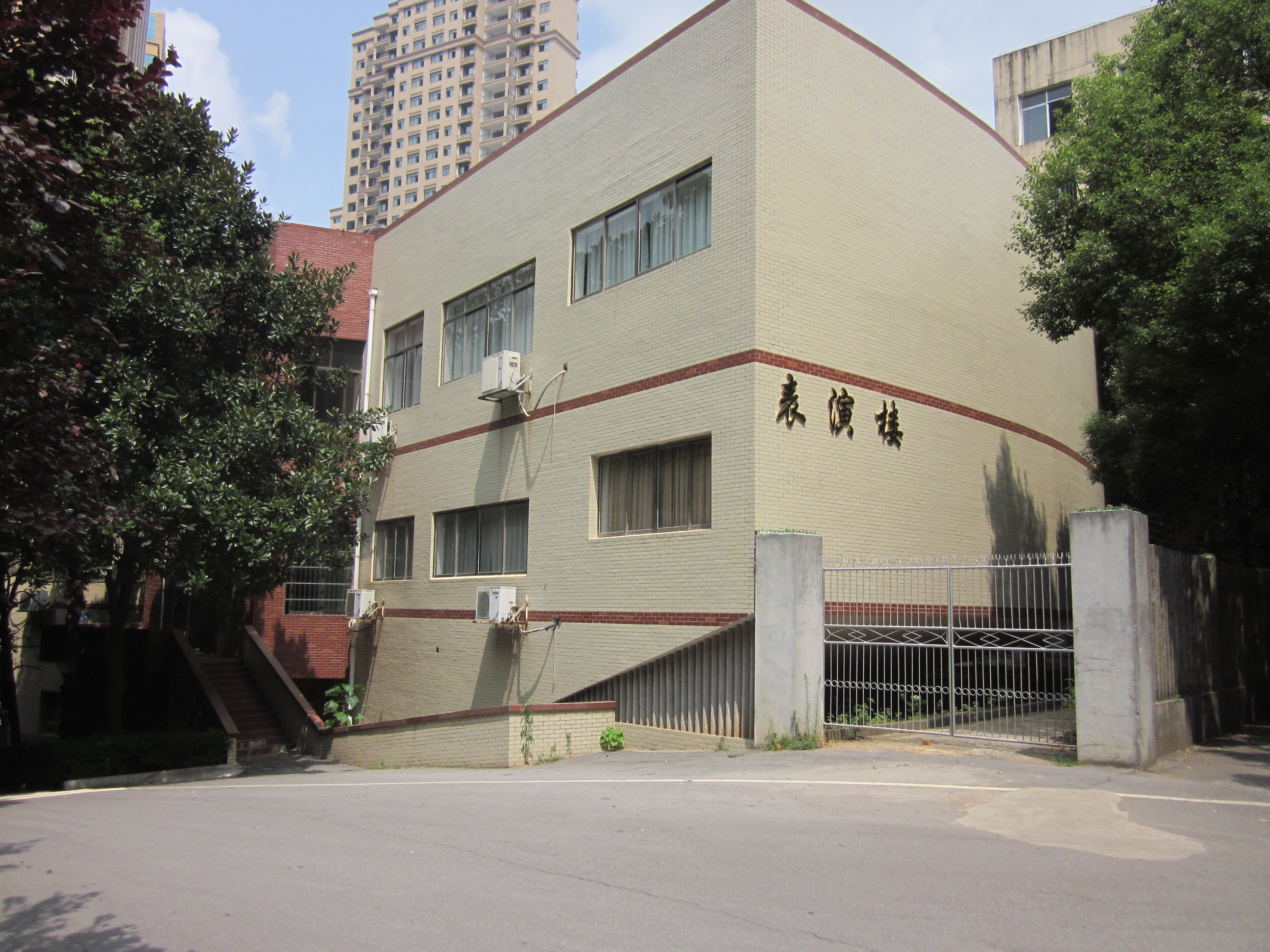 Hunan Women's University (simplified